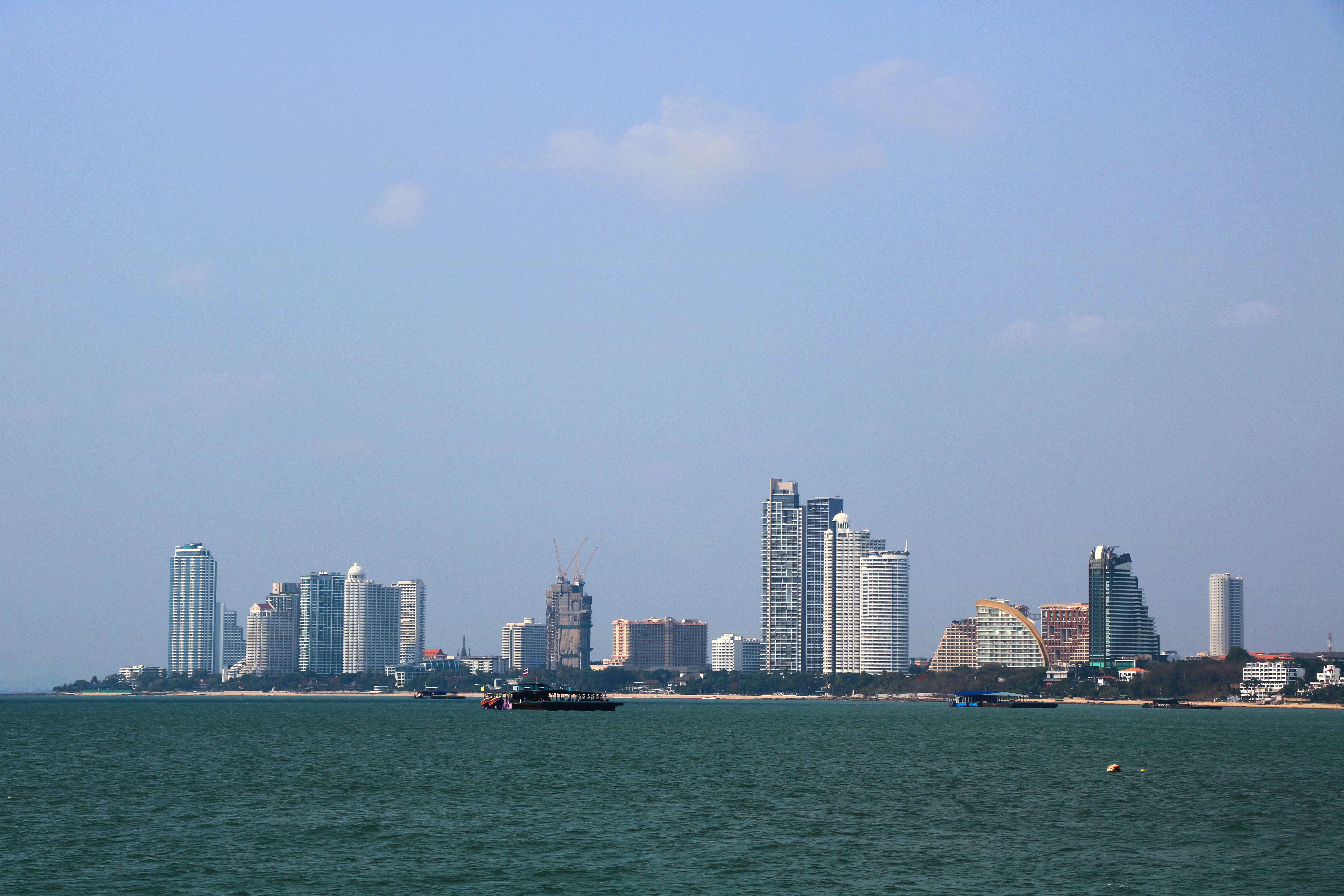 View of Naklua (North Pattaya) from Koh Larn Ferry near Lam Bali Pier.